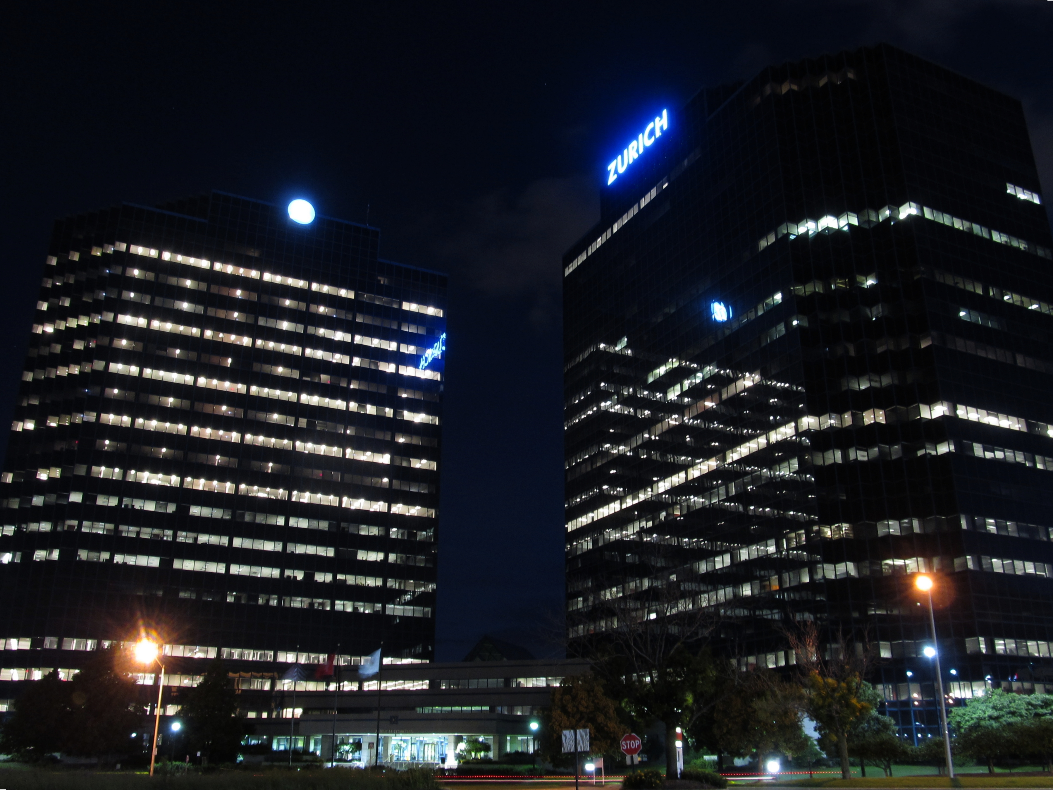 Zurich Insurance Group Ltd., commonly known as Zurich, is a Swiss insurance company, headquartered in Zurich, Switzerland. Zurich Insurance Group is Switzerland’s biggest insurer. As of 2011, Zurich was the world’s 79th largest public company according to Forbes’ Global 2000s list and ranked 94th in Interbrands top100 brands. Zurich Insurance Group Ltd is a global insurance company which is organized into three core business segments: General Insurance, Global Life and Farmers. The company employs around 60,000 people serving customers in more than 170 countries and territories across the globe.